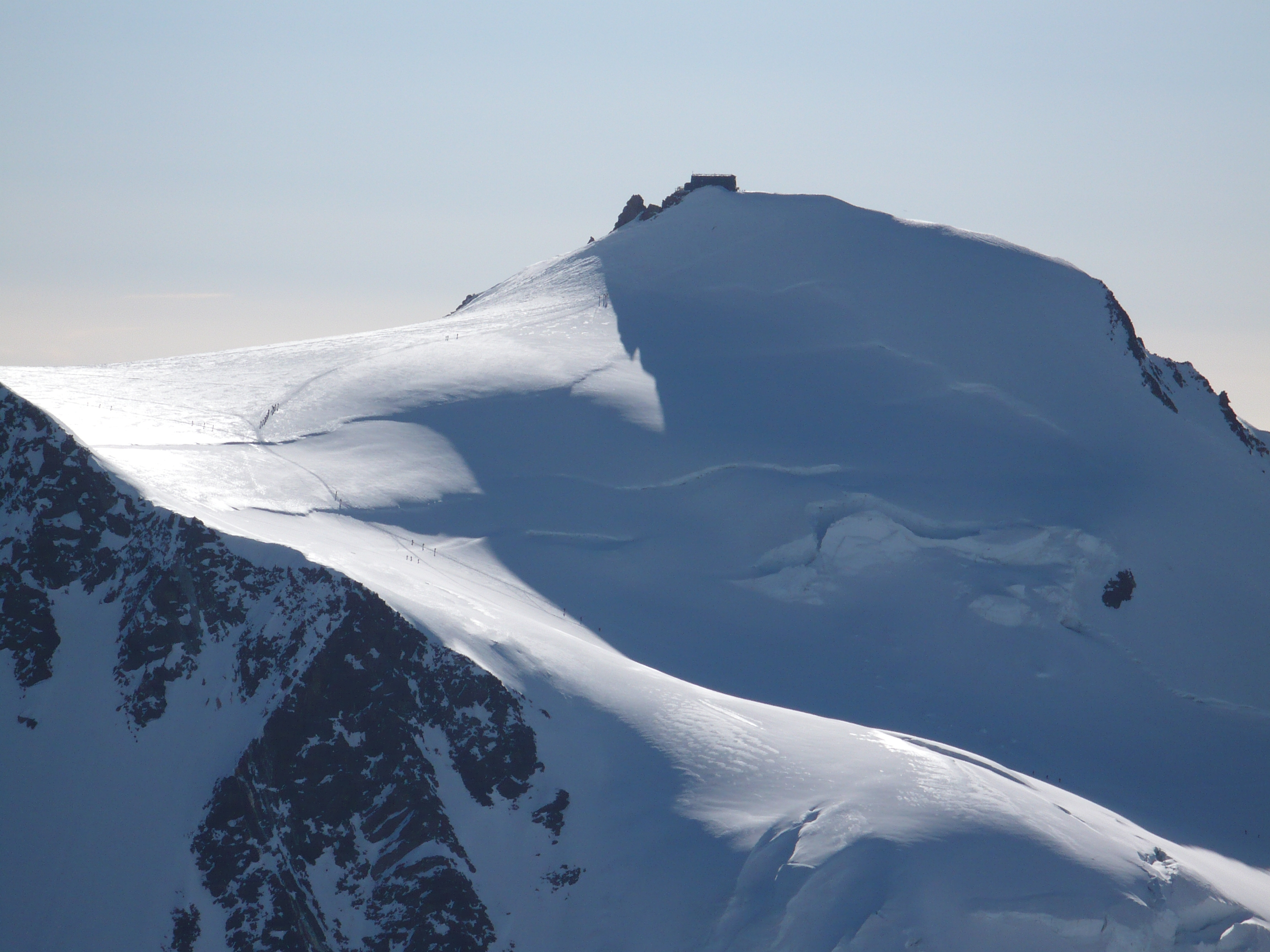 Signalkuppe from Lyskamm